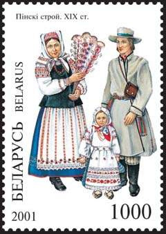 Pinski Stroj stamp